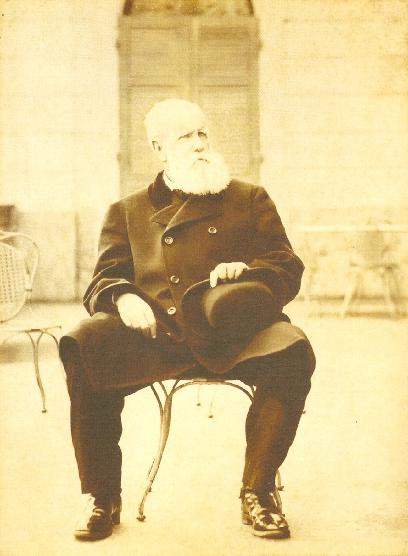 Emperor Pedro II of Brazil, 1888.